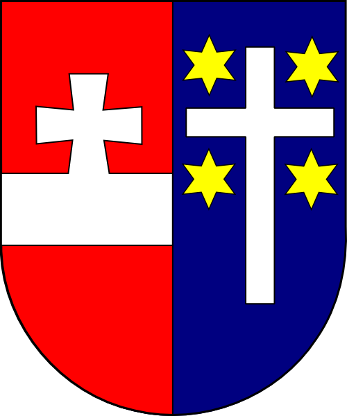 Coat of arms (shield only) of Johann Baptist Cardinal Kutschker, archbishop of Vienna (1876 - 1881).